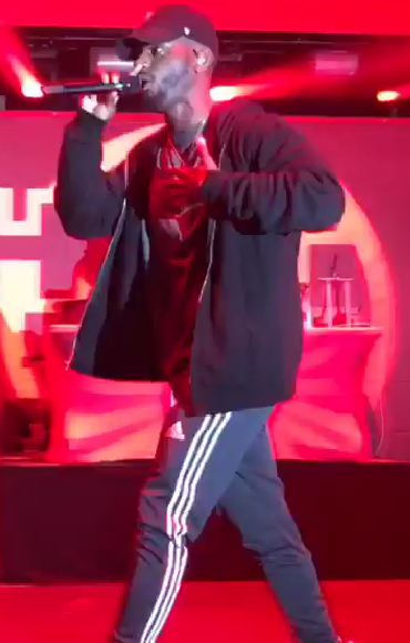 Bryson Tiller performing at the Summer Jam 2016